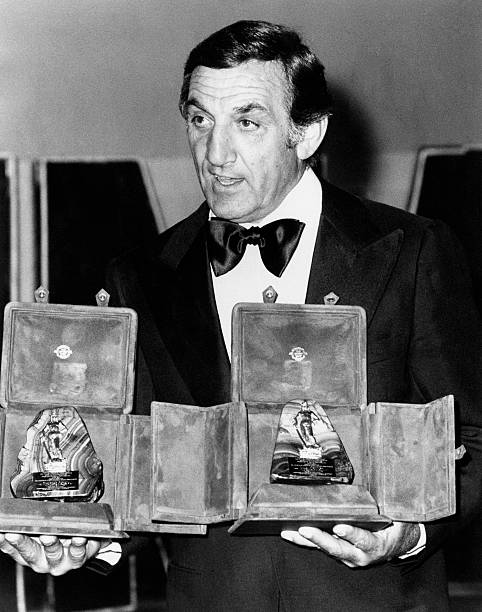 Italian actor Lino Ventura acting showing the David di Donatello Award won as best foreign actor in the film Happy New Year (La bonne année) by Claude Lelouch. The second award belongs to Françoise Fabian, best foreign actress in the same film. Taormina, 1974 (Photo by Angelo Deligio\Mondadori Portfolio by Getty Images)